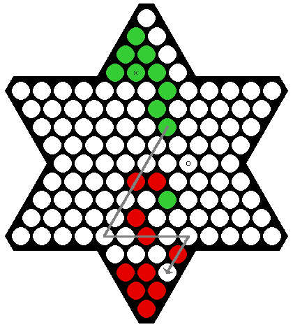 Diagram of a Chinese Checkers jump under the fast-paced rules.